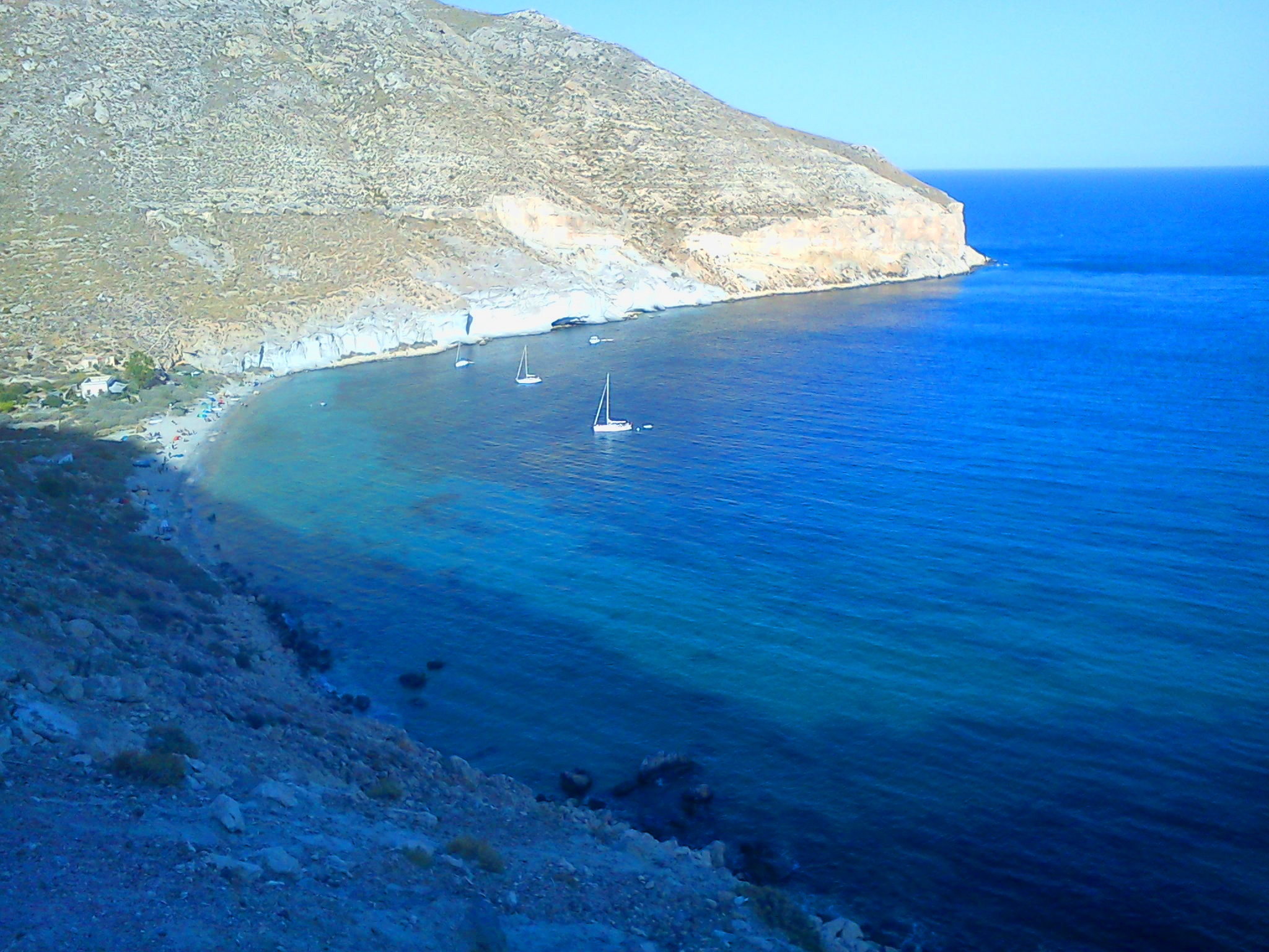 View of the beach from the walking path, just 1 kilometer away at 83 meters over the Mediterranean Sea.